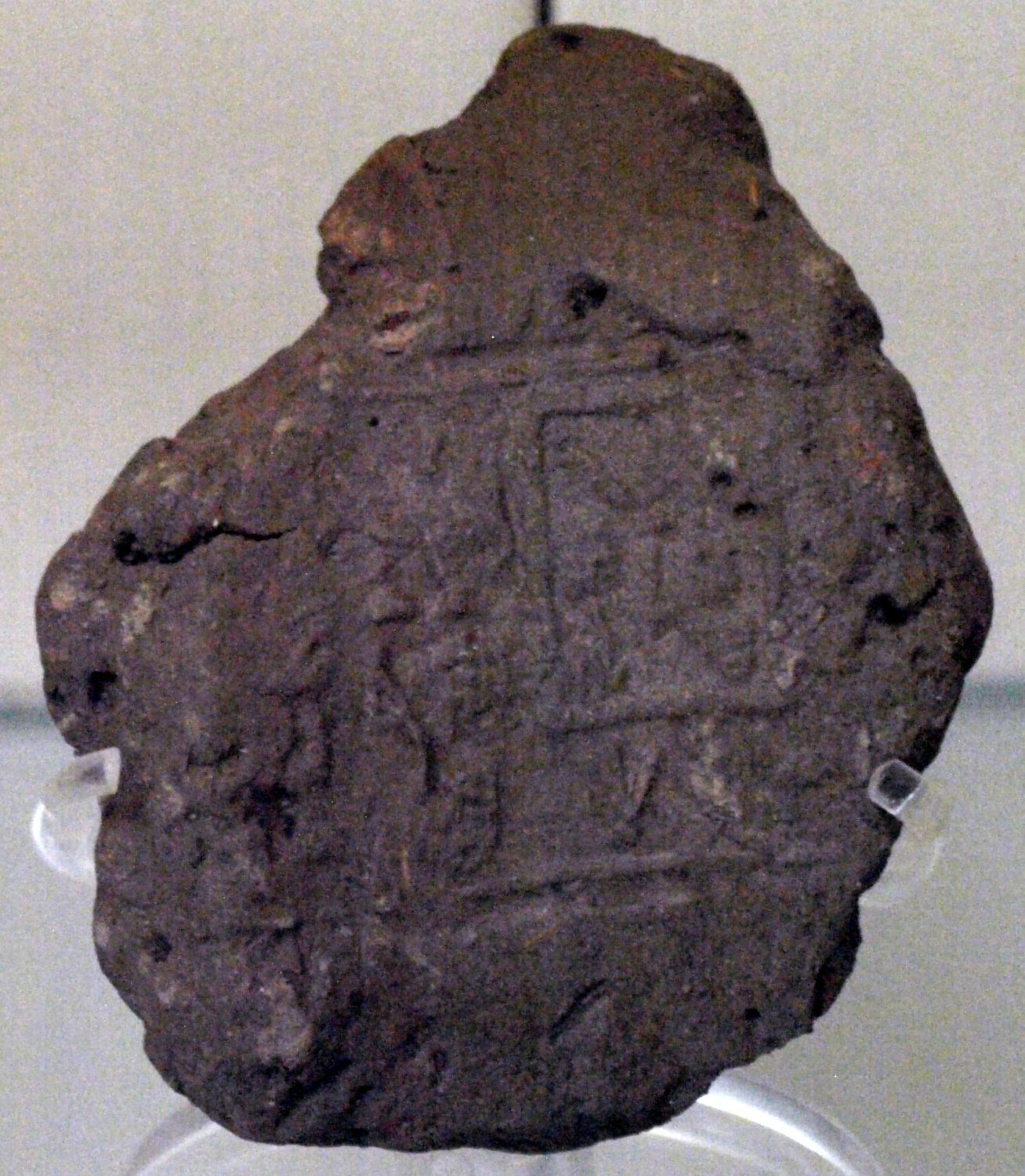 A clay seal impression bearing the name of the 1st dynasty pharaoh Anedjib, circa 2900 BC. Likely originally from the royal cemetary at Abydos. EA 65906.